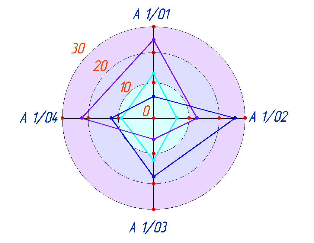 The schematic image a net diagram.